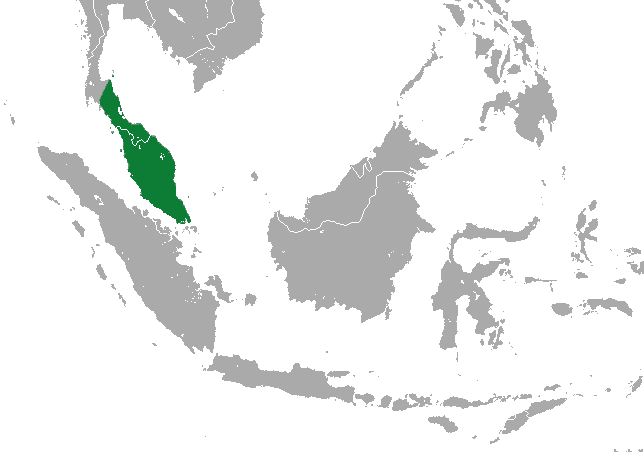 Malayan Shrew (Crocidura malayana) range